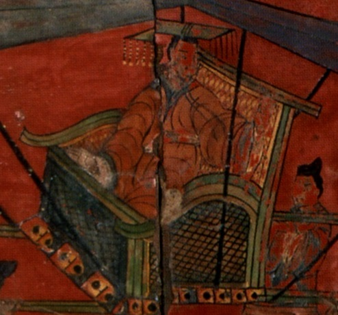 Register showing Emperor Cheng of the Han dynasty sitting on his palanquin. Cropped painting is part of a four-panel wooden folding screen measuring 81.5 cm in height; from the tomb of Sima Jinlong in Datong, Shanxi province, dated to the Northern Wei Dynasty (386–534 AD).